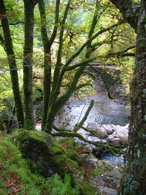 Oaks, Eas Chia-aig. Sessile oak woods beside the waterfall.